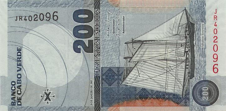 Cape-verdean 2005 200CVE note - front